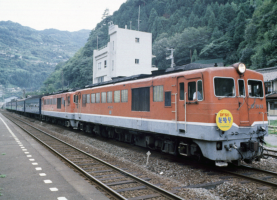 A pair of JNR Class DF50 diesel locomotives, DF50 65 and DF50 1, at Awa-Kawaguchi Station on the Dosan Line in Shikoku on a DF50 farewell tour